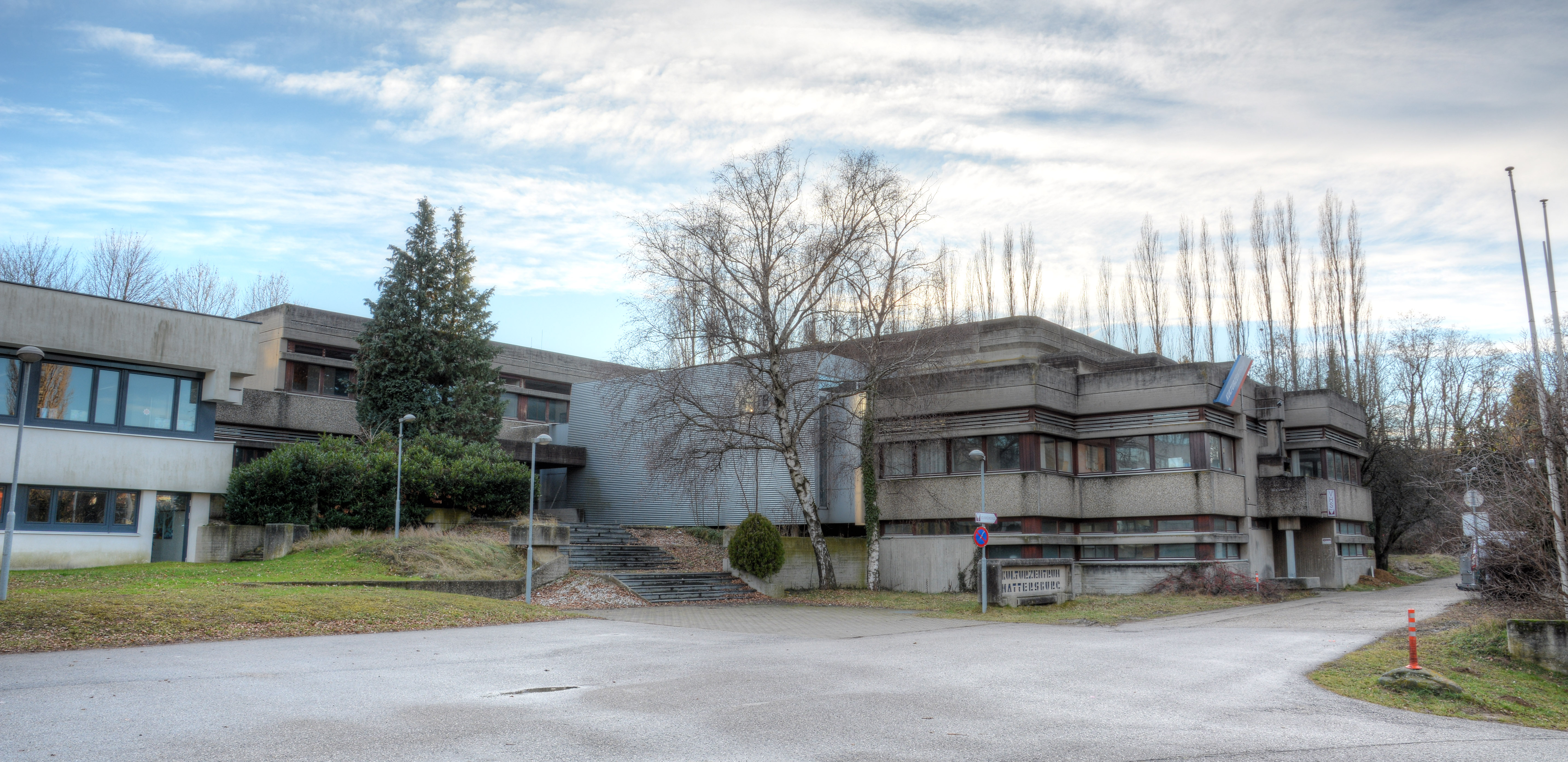 Cultural center in Mattersburg, Burgenland, Austria